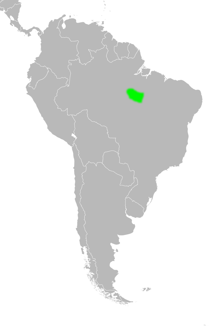 Distribution of the rodent Euryoryzomys emmonsae in South America.